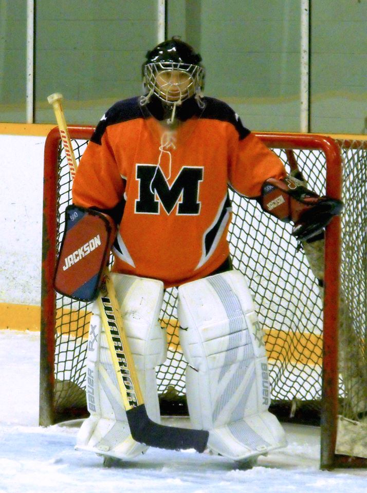 This photo was taken by Devan Mighton during the 2014-15 WECSSAA season.